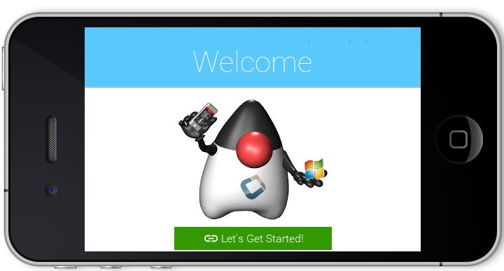 Default app created by Codename One running on iPhone 3 Simulator